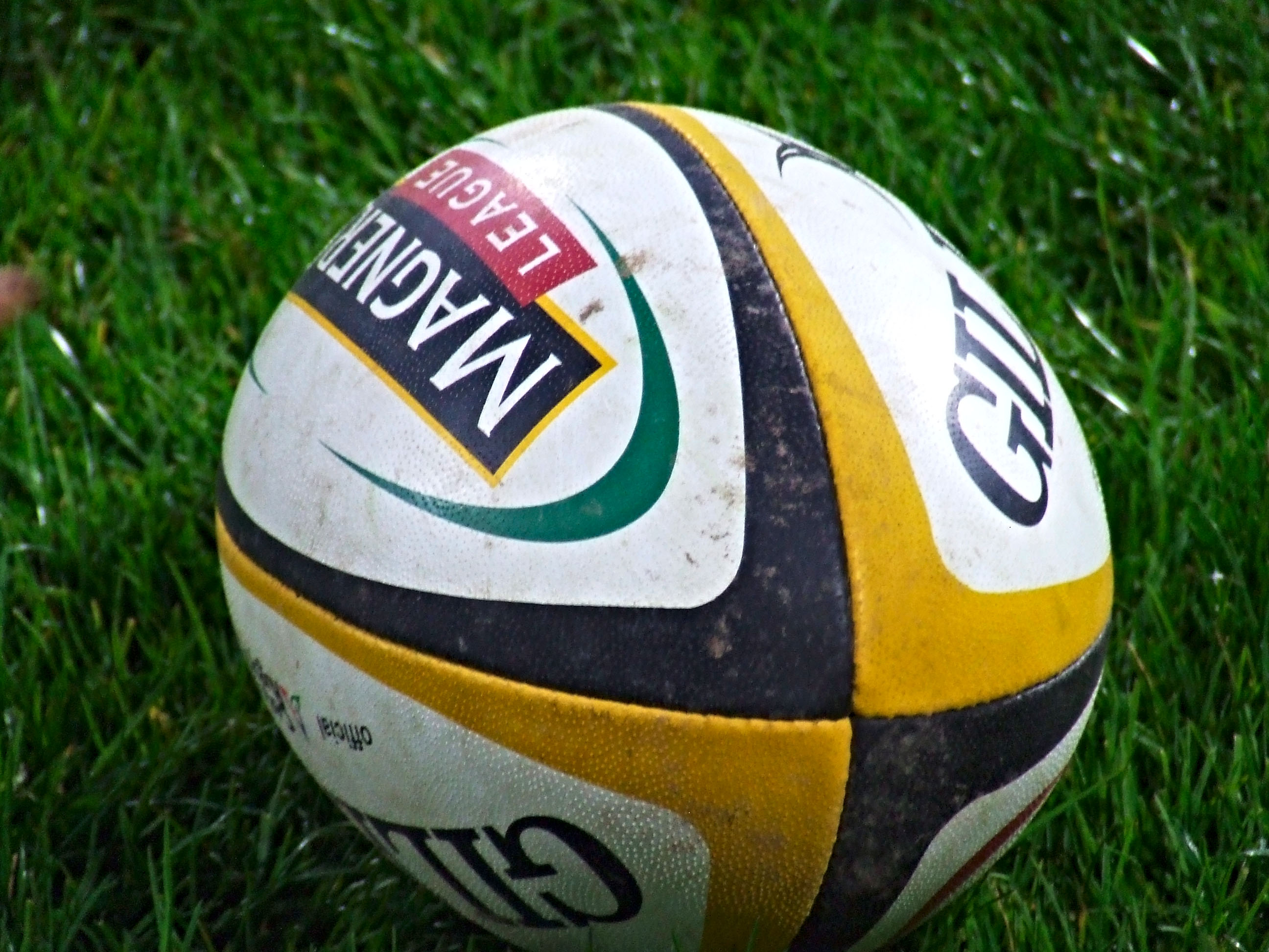 Magners League Rugby Ball. Gilbert rugby union ball for Pro12